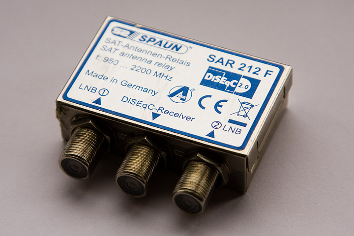 Diseqc 2.0 SAT antenna relay